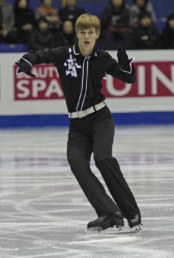 Verner at the 2008-2009 Grand Prix Final.